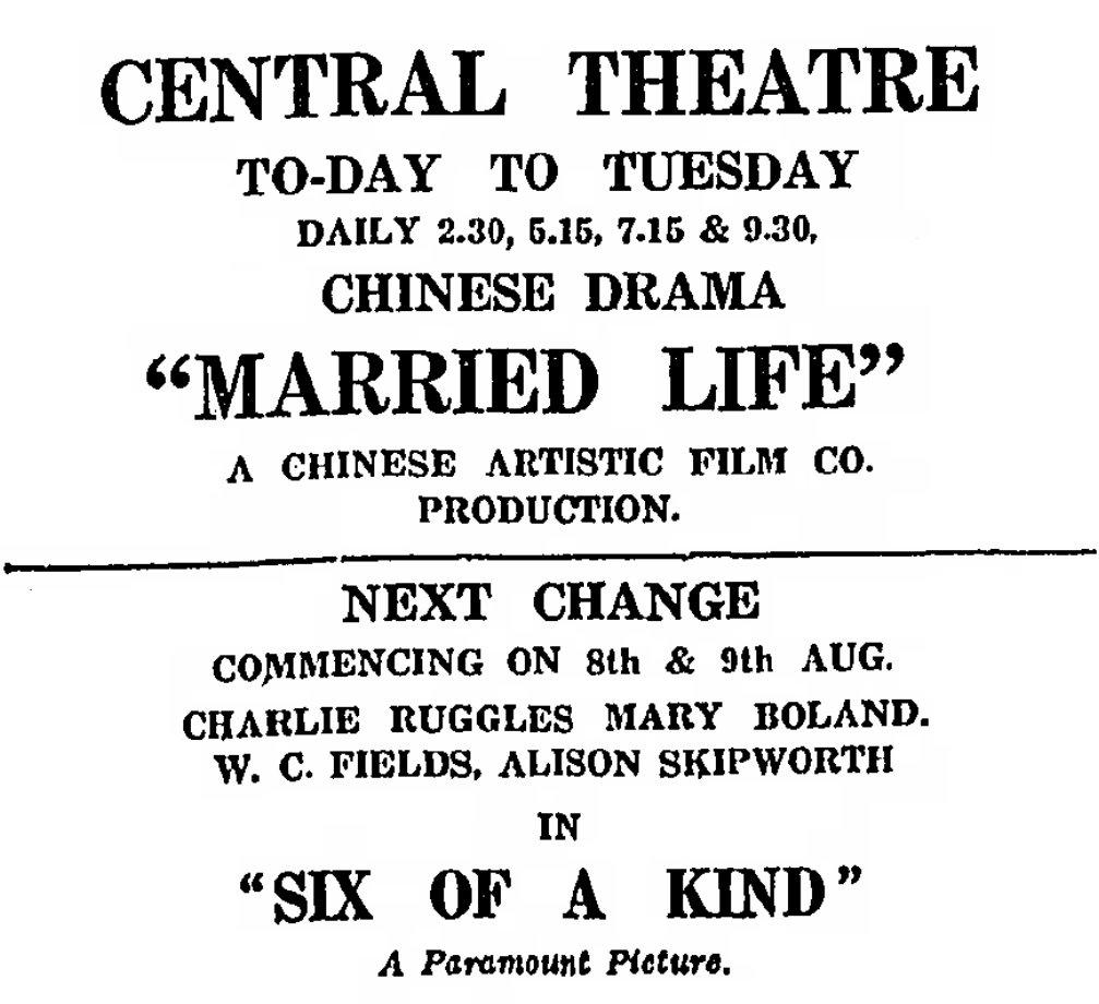 advertisement of 1934 silent movie "Married Life (婚後的問題)", it is the third production from Hong Kong branch of Canton "Chinese Artistic Film Company (華藝影片公司)", Kwangtung province, Republic of China. British